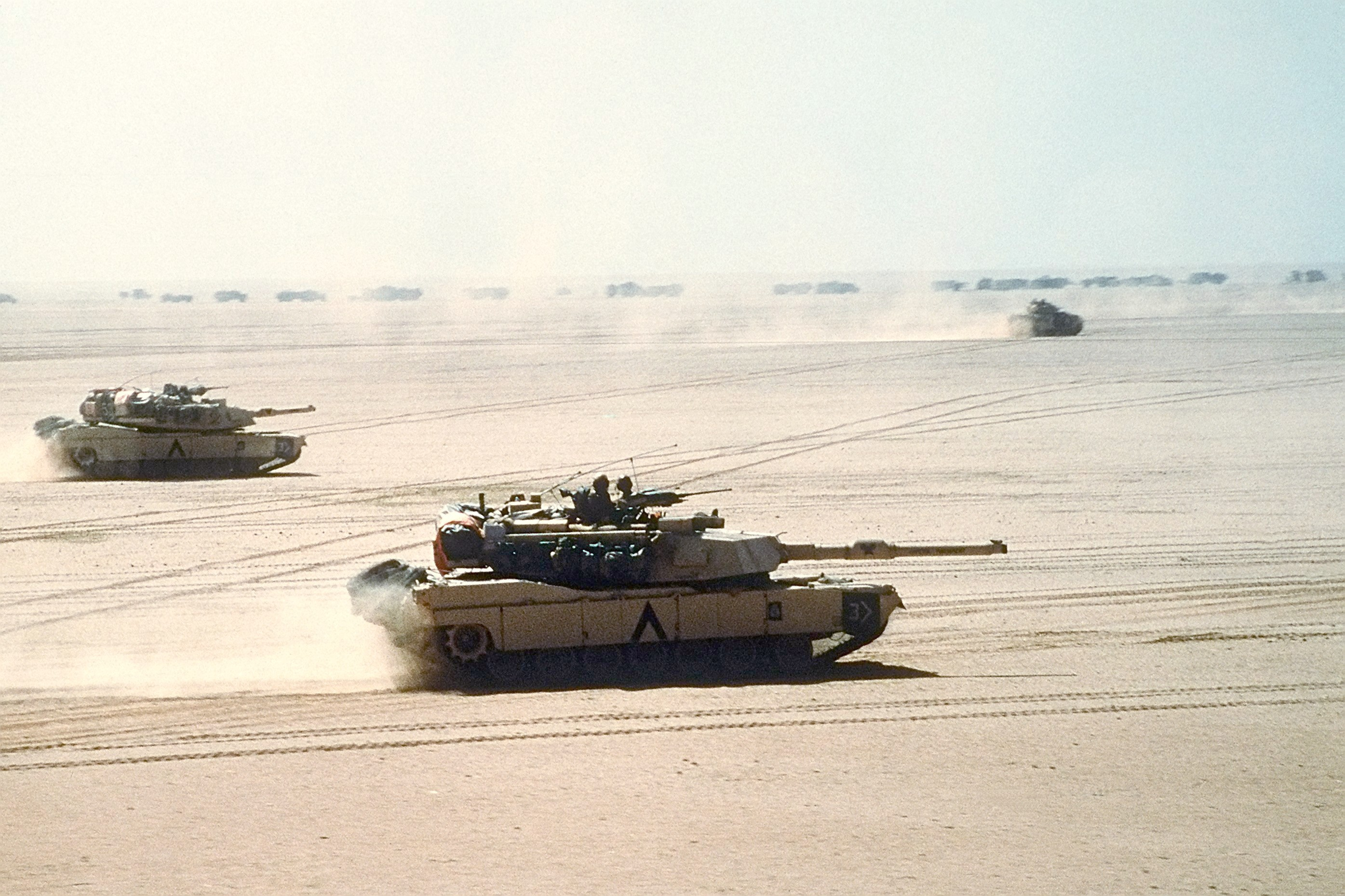 M1A1 Abrams main battle tanks of the 3rd Armored Division move out on a mission during Operation Desert Storm. An M2/M3 Bradley can be seen in background.